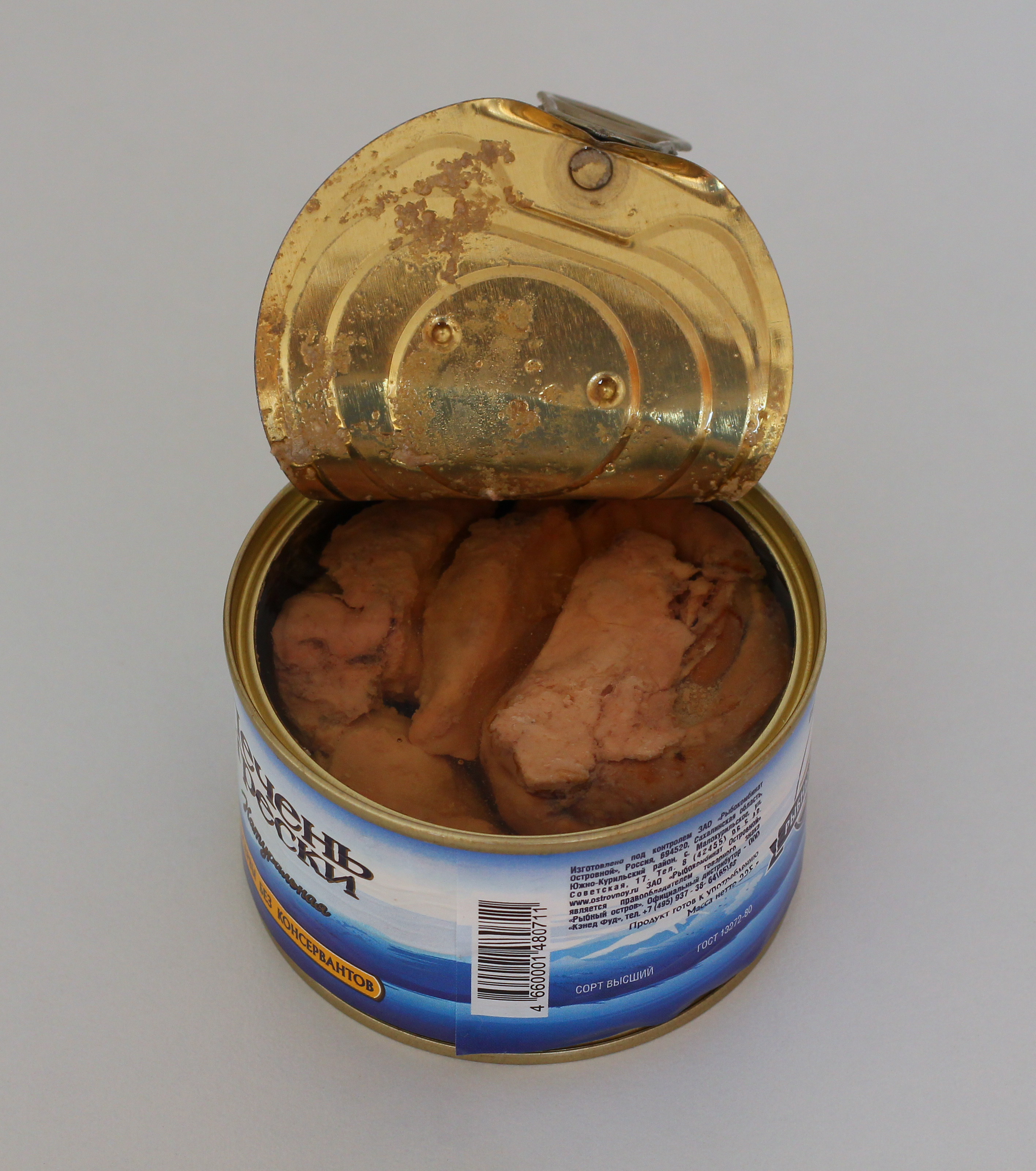 A recently opened can with cod liver made in Russia